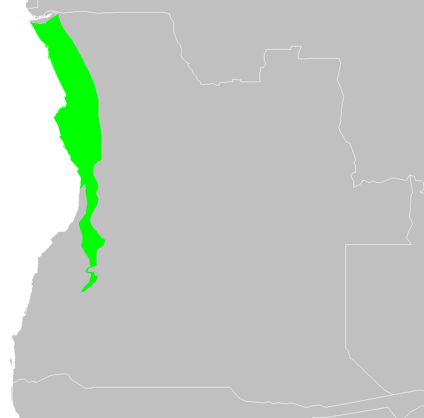 Angolan Scarp savanna and woodlands ecoregion map